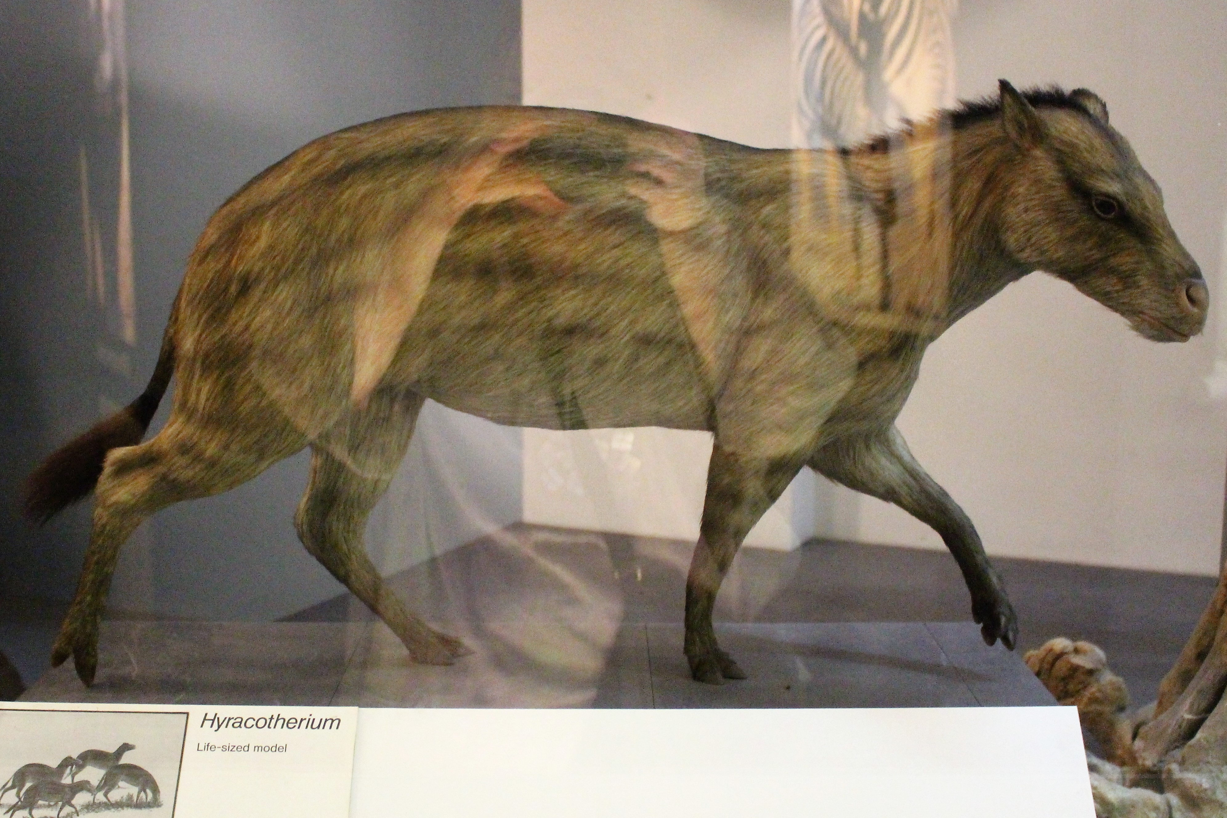 Hyracotherium model at the Natural History Museum in London, England.